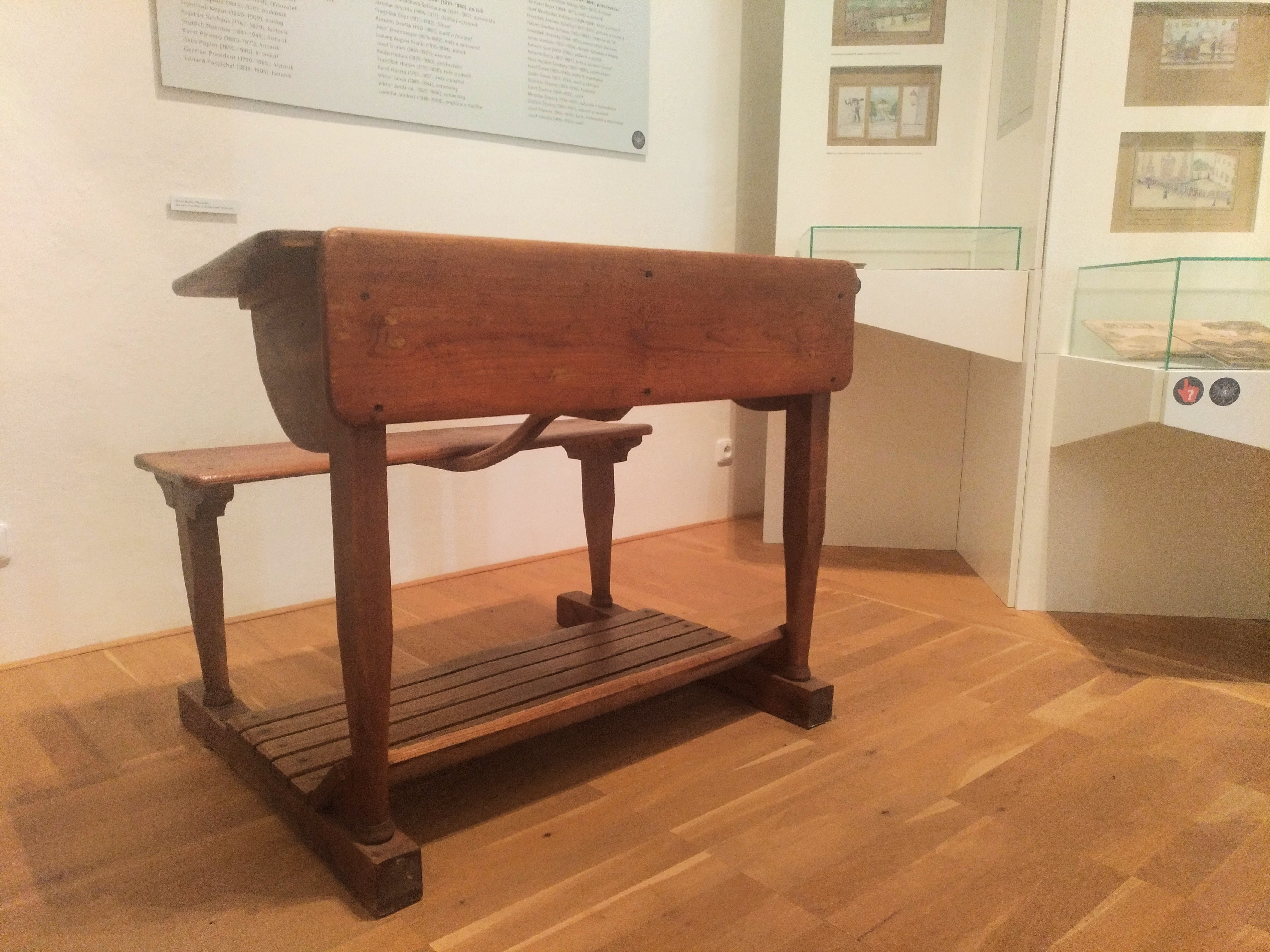 School desk in the regional museum of Litomyšl